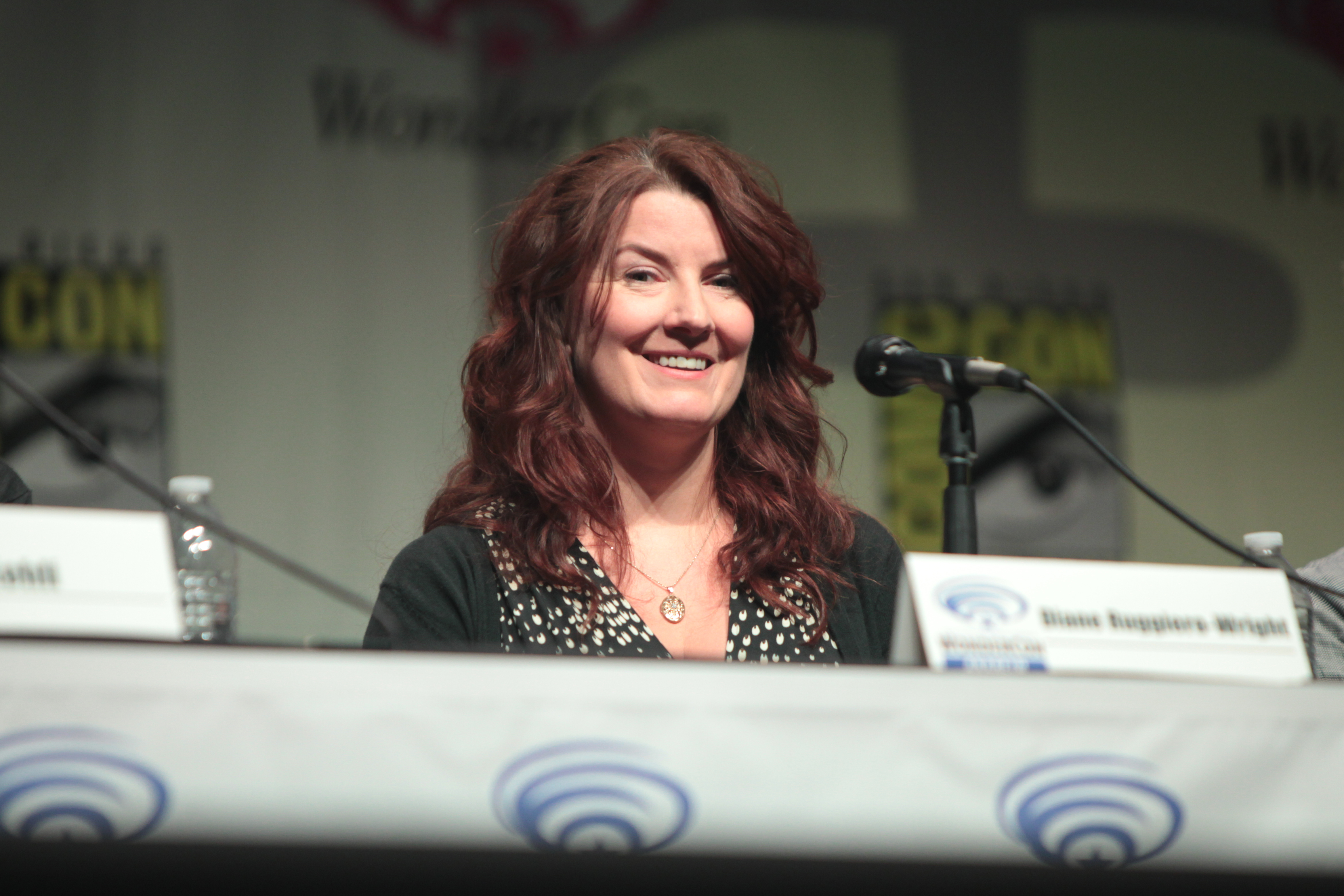 Diane Ruggiero-Wright speaking at the 2015 Wondercon, for "iZombie", at the Anaheim Convention Center in Anaheim, California.